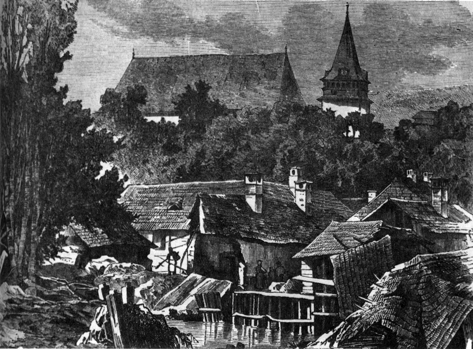 Miskolc Avas in 1878 after the flood. Photographer: István Szinay (1826-1909)